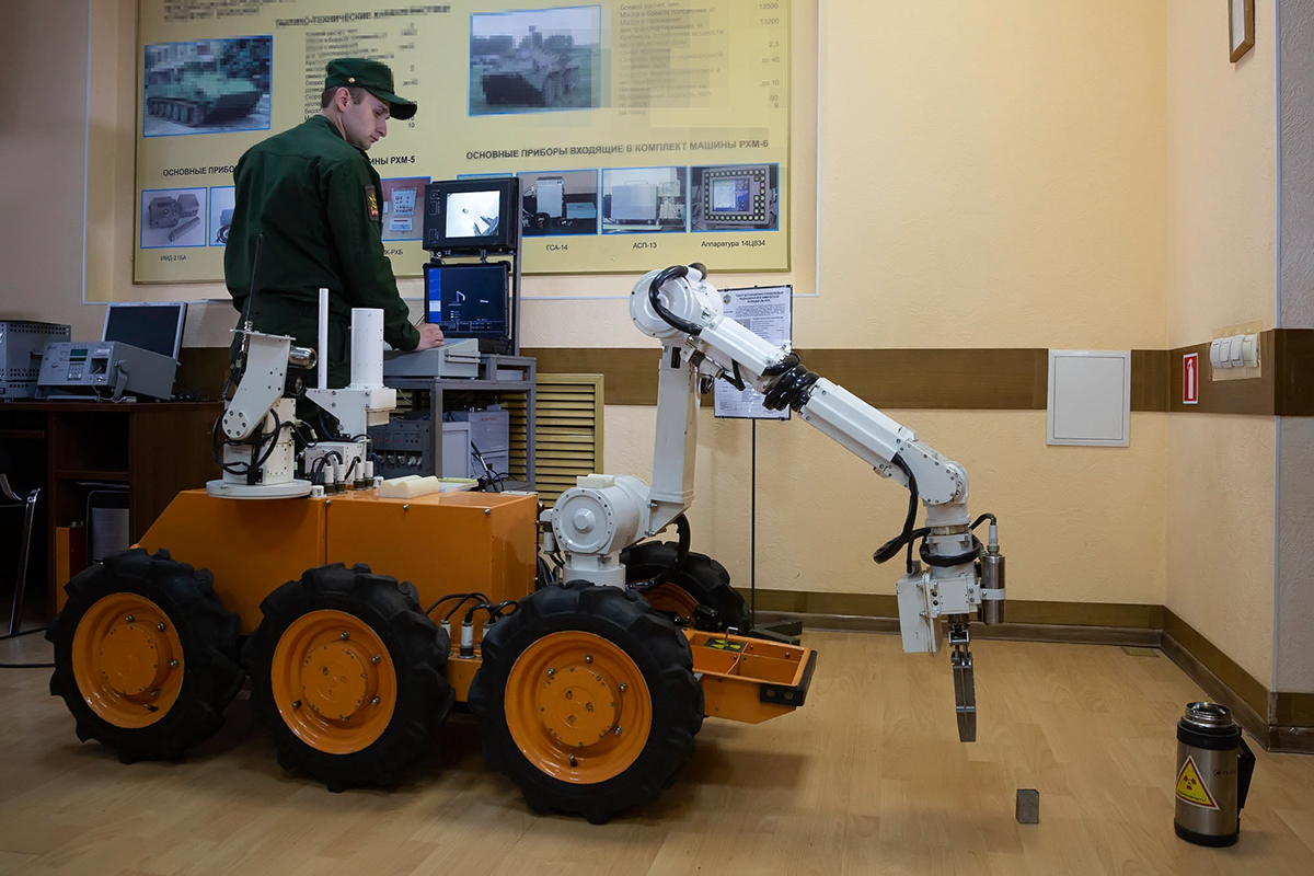 RD-RKhR robot in the NBC Protection Military Academy (Russia).